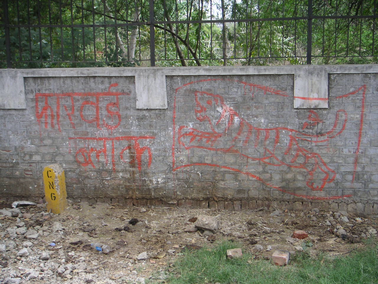 All India Forward Bloc mural. Delhi. Photo: Soman